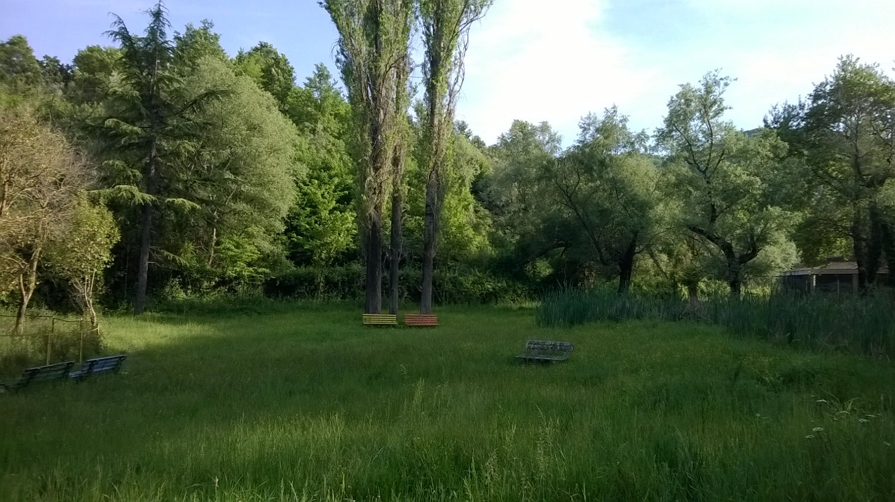 The Kopshti Zoologjik i Tiranës (Tirana Zoo) is concentrated in the southern part of town, between the Grand Park (Parku i Madh) and the Botanic Garden of Tirana (Kopshti Botanik).